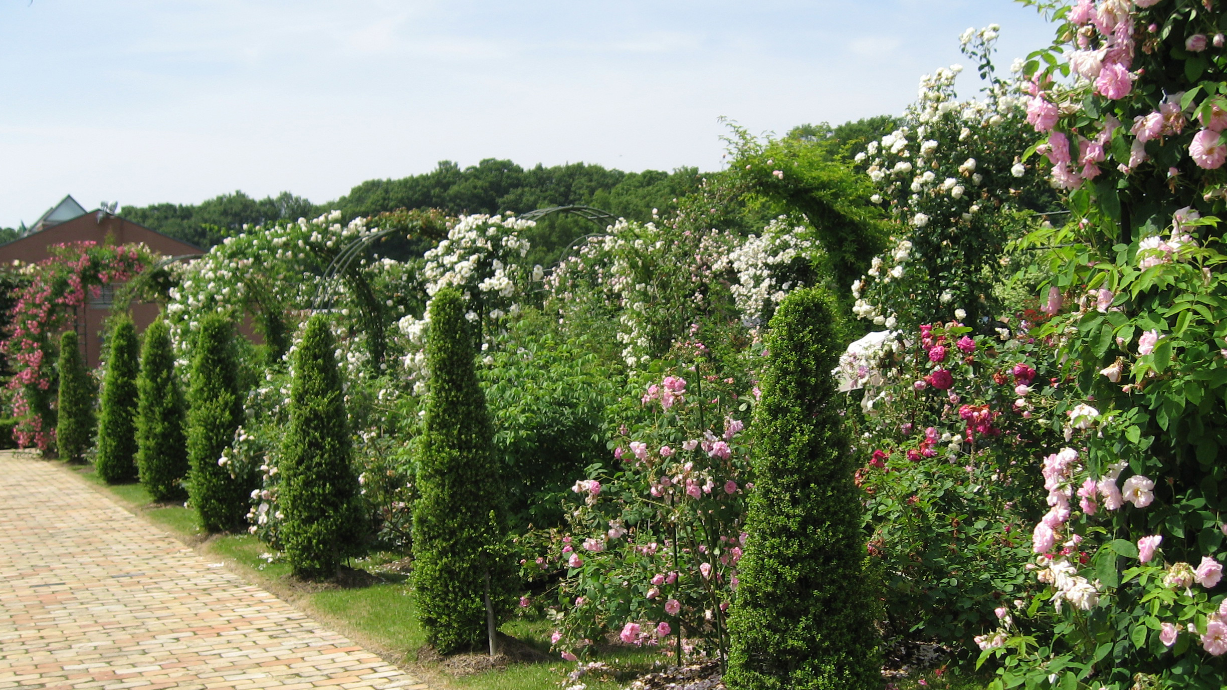 "Josephine's Rose Garden" of Flower Festival Commemorative Park Seta Kani, Gifu Japan.